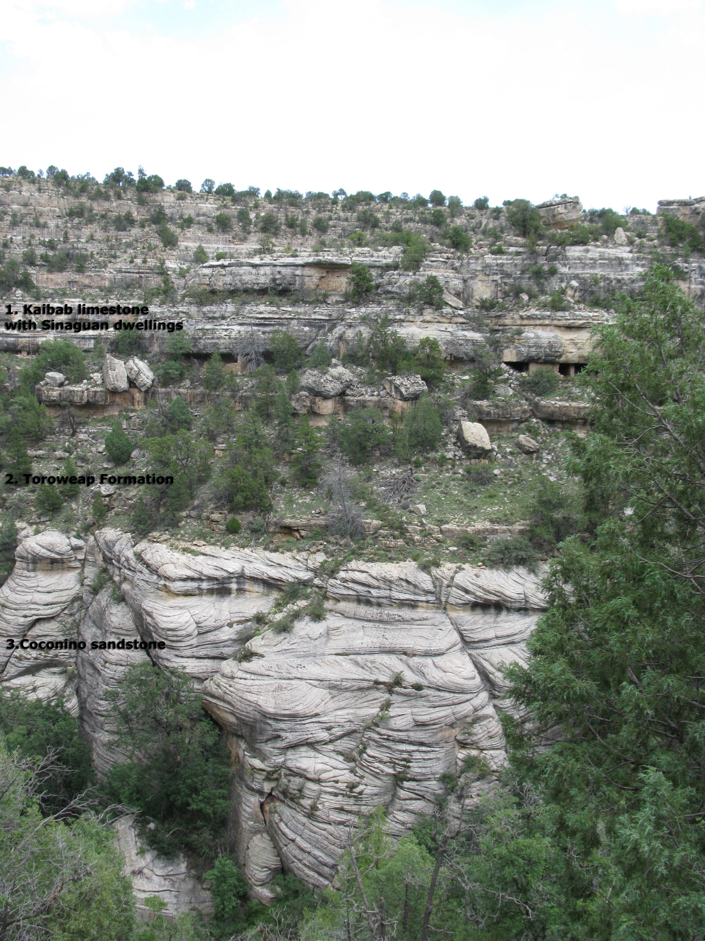 Geological strata at the Walnut Canyon National Monument in Flagstaff, AZ